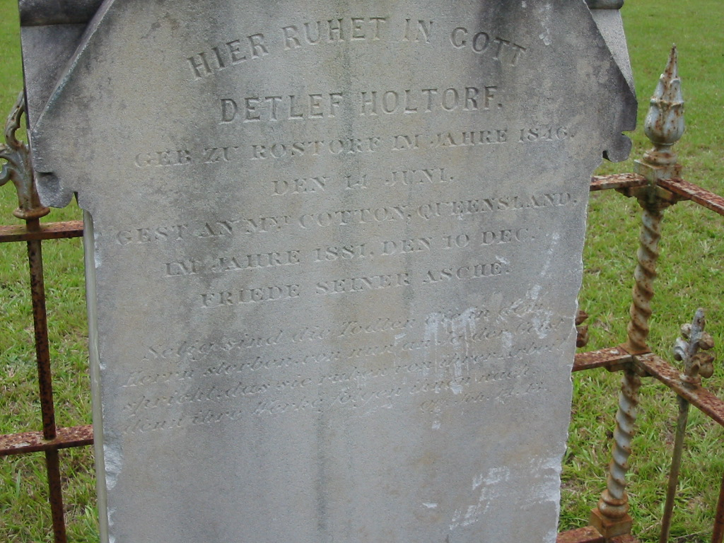 Detlef Holtorf headstone, Carbrook Lutheran Cemetery, 2005